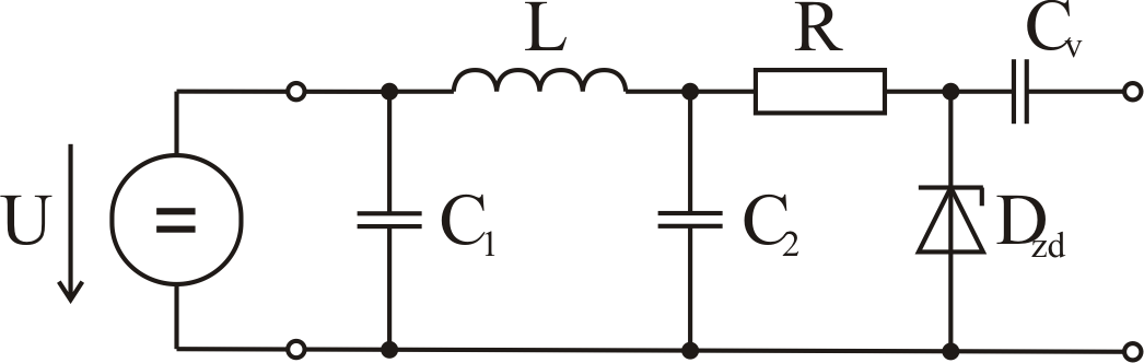 The circuit of white noise machine with Zener diode.